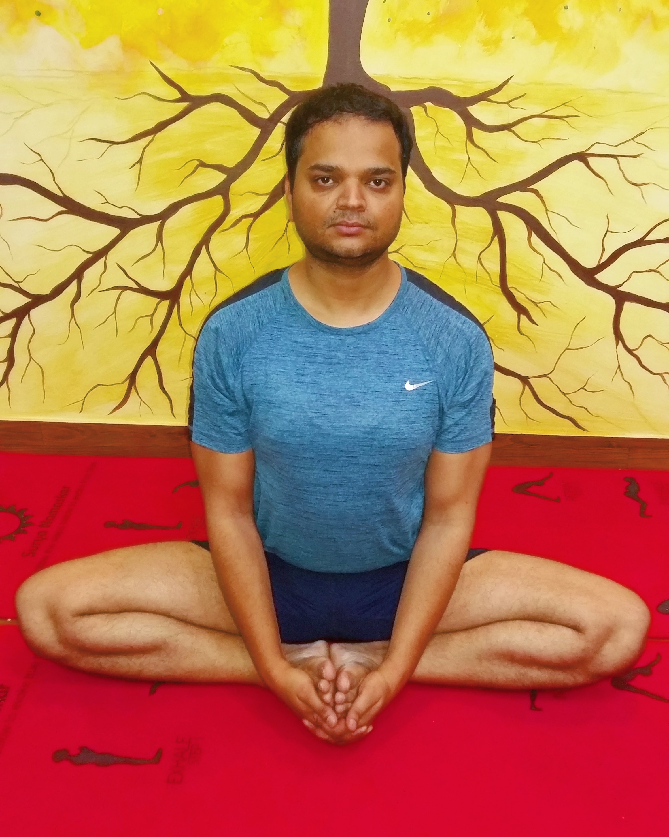 Baddha Konasana..Sadhak Anshit